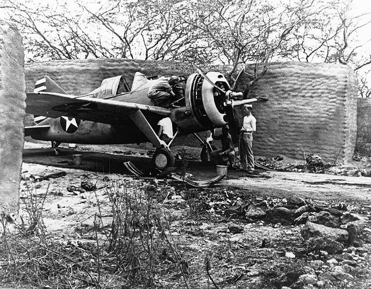 Brewster F2A-3 "Buffalo" fighter, probably from Marine Fighting Squadron 212 (VMF-212) receives maintenance in a camouflaged revetment at Marine Corps Air Station, Ewa, Hawaii, 25 April 1942.